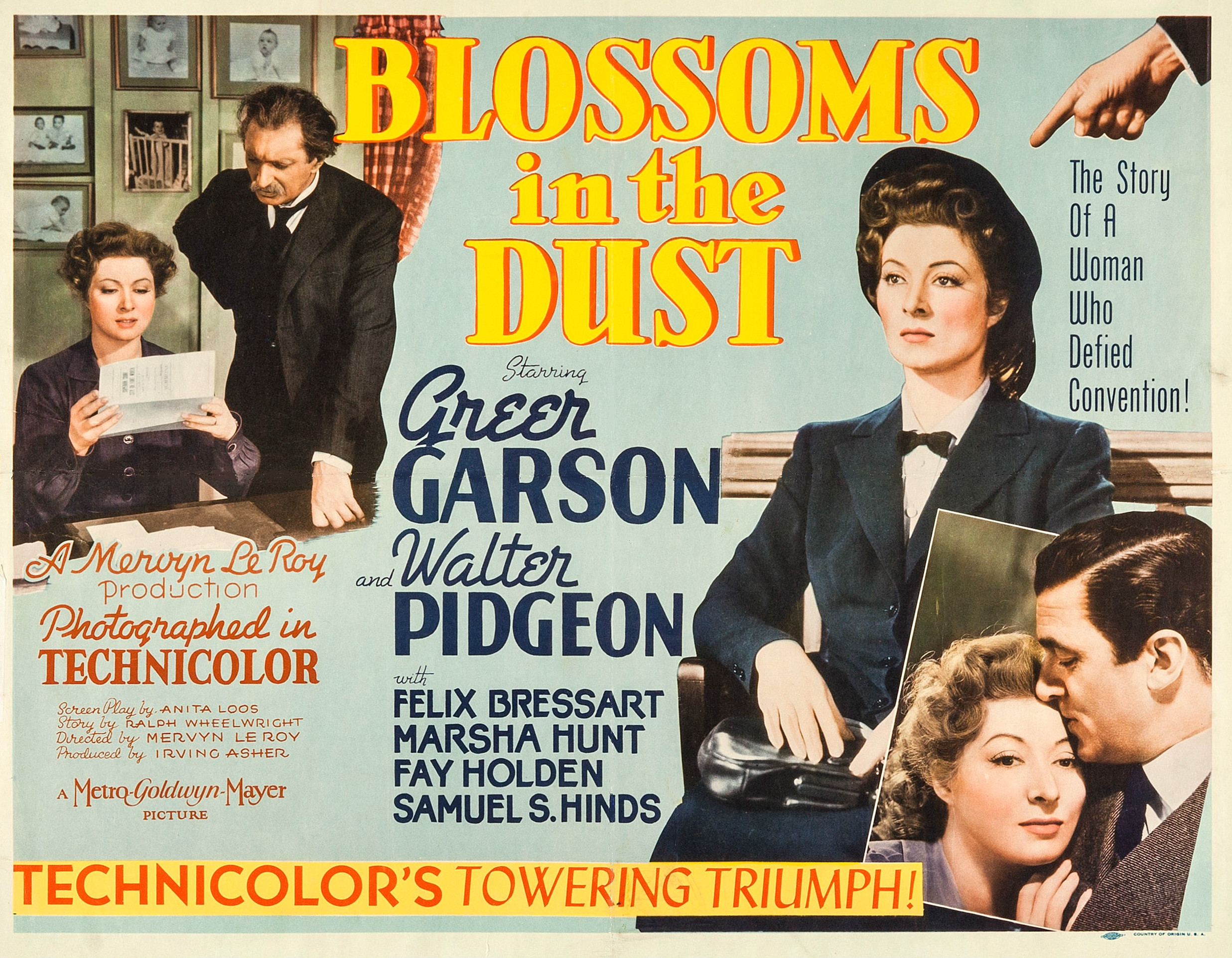 Lobby card for the American film Blossoms in the Dust (1941).